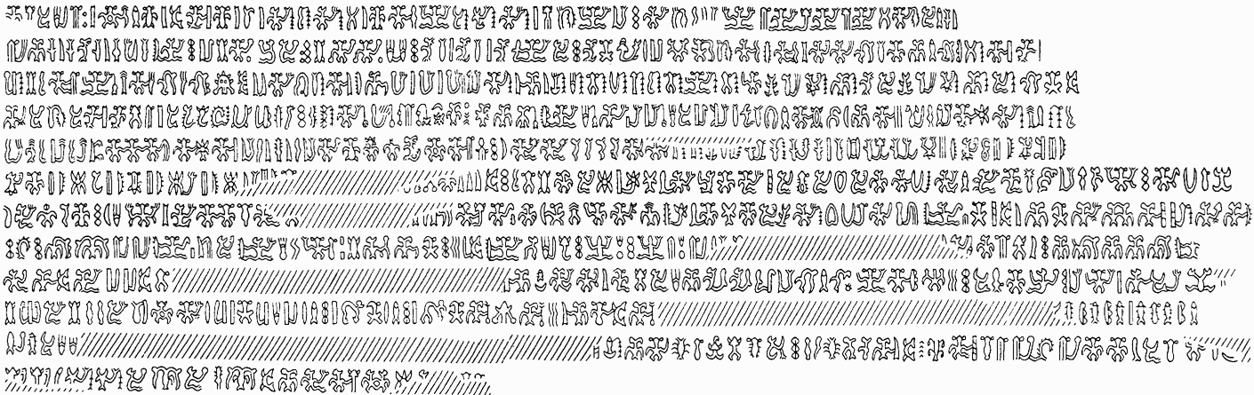 Barthel's tracing of rongorongo tablet H, recto